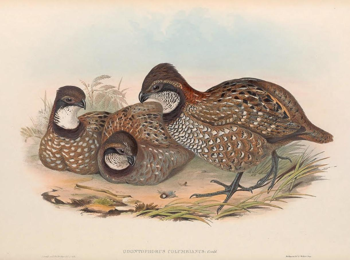 Odontophorus columbianus - A monograph of the Odontophorinæ, or, Partridges of America